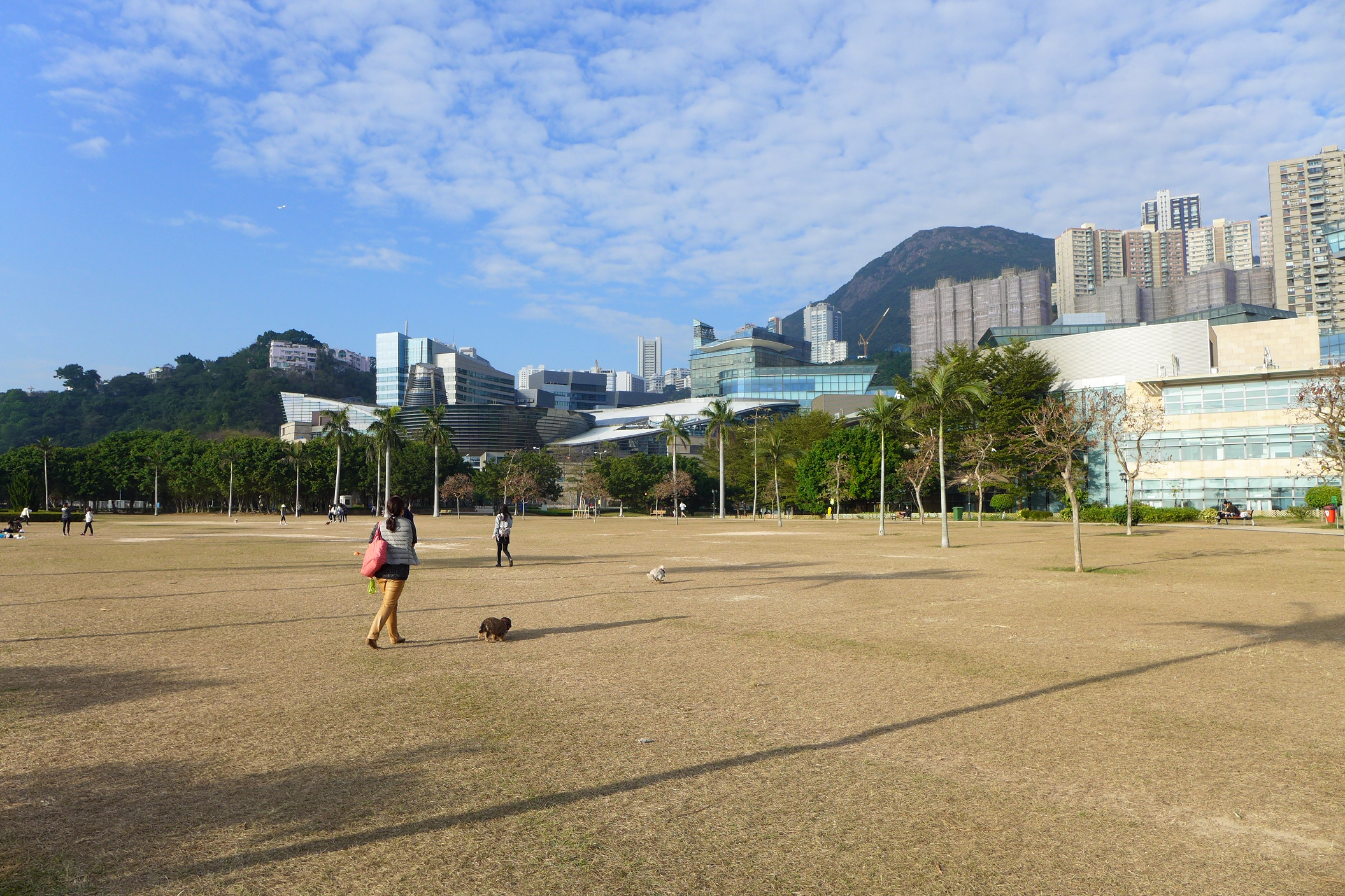 Cyberport Park Lawn